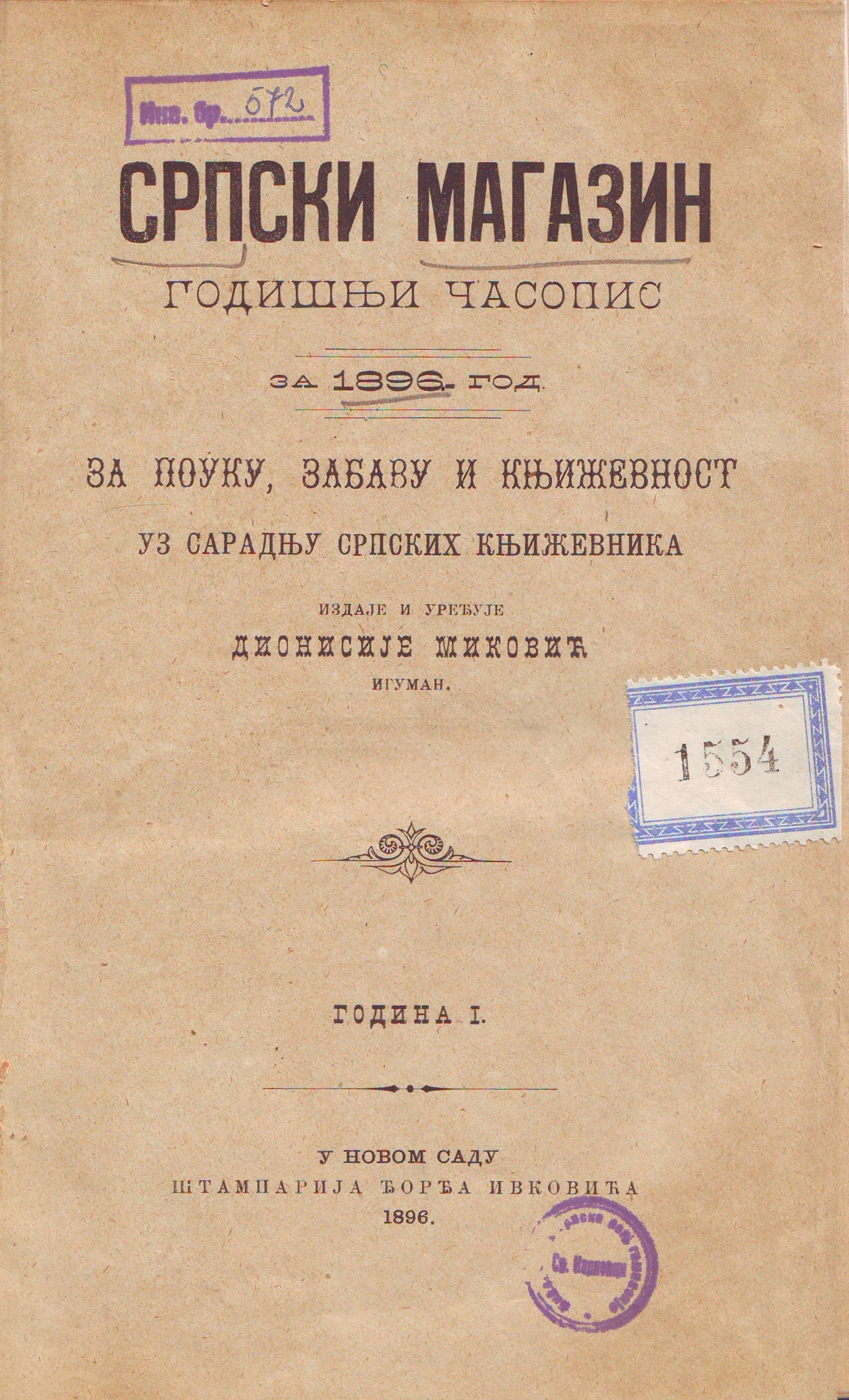 Cover of the magazine for teaching, entertainment and literature Srpski magazin (1896). Srpski (latinica): Naslovna strana časopisa za pouku, zabavu i književnost Srpski magazin (1896).